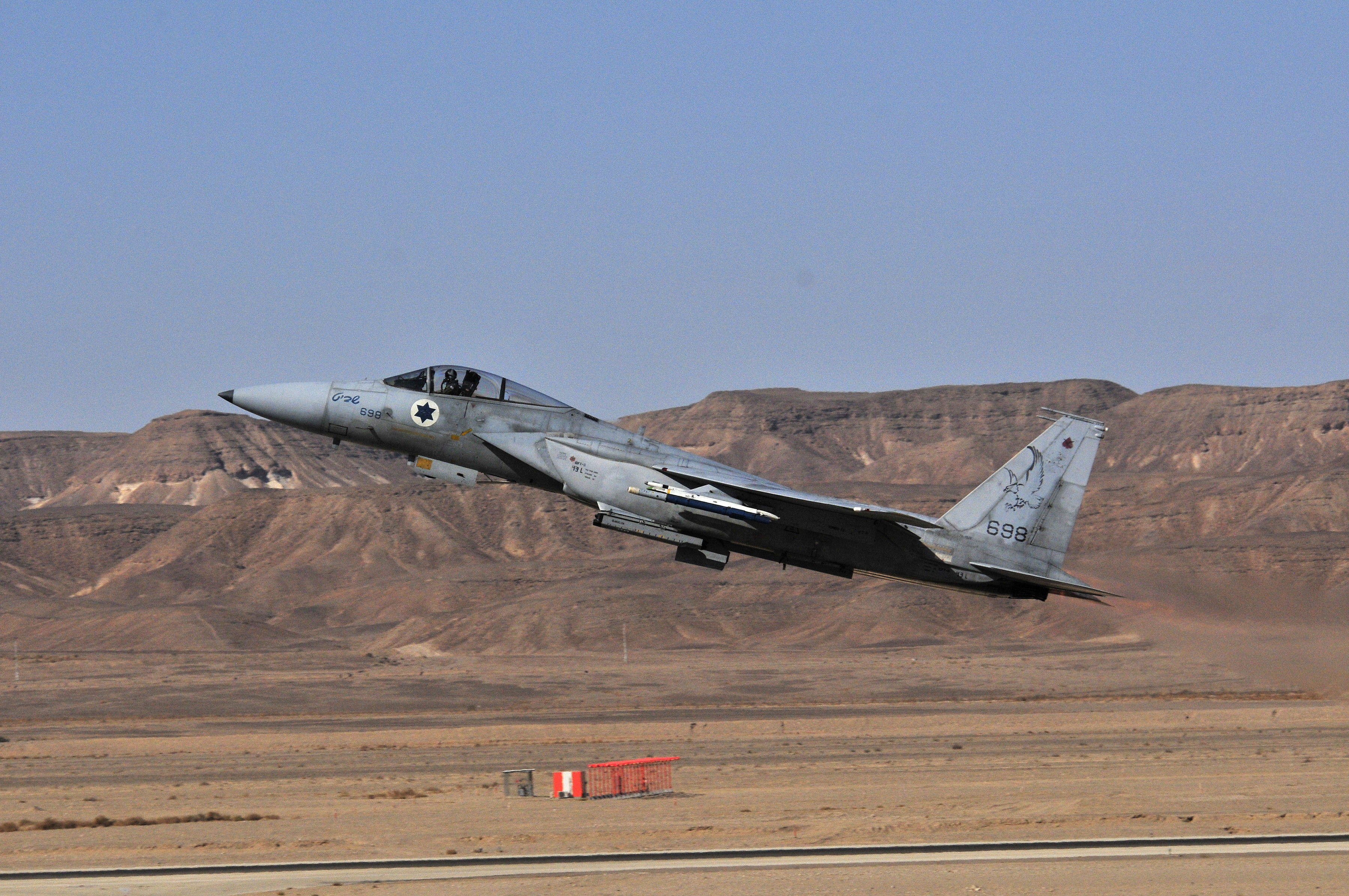 An Israeli Air Force McDonnell Douglas F-15A Eagle (698, ex USAF 76-1523) of the 133rd Squadron departs on a mission during the "Blue Flag" exercise on Ovda Air Force Base, Israel, on 26 November 2013. The exercise was designed to promote improved operational capability, combat effectiveness, understanding and cooperation between the U.S., Israel, Greece, and Italy. The participating units engaged multiple heavy air defense assets, ground base targets and simulated opposition forces to meet combined operations requirements.